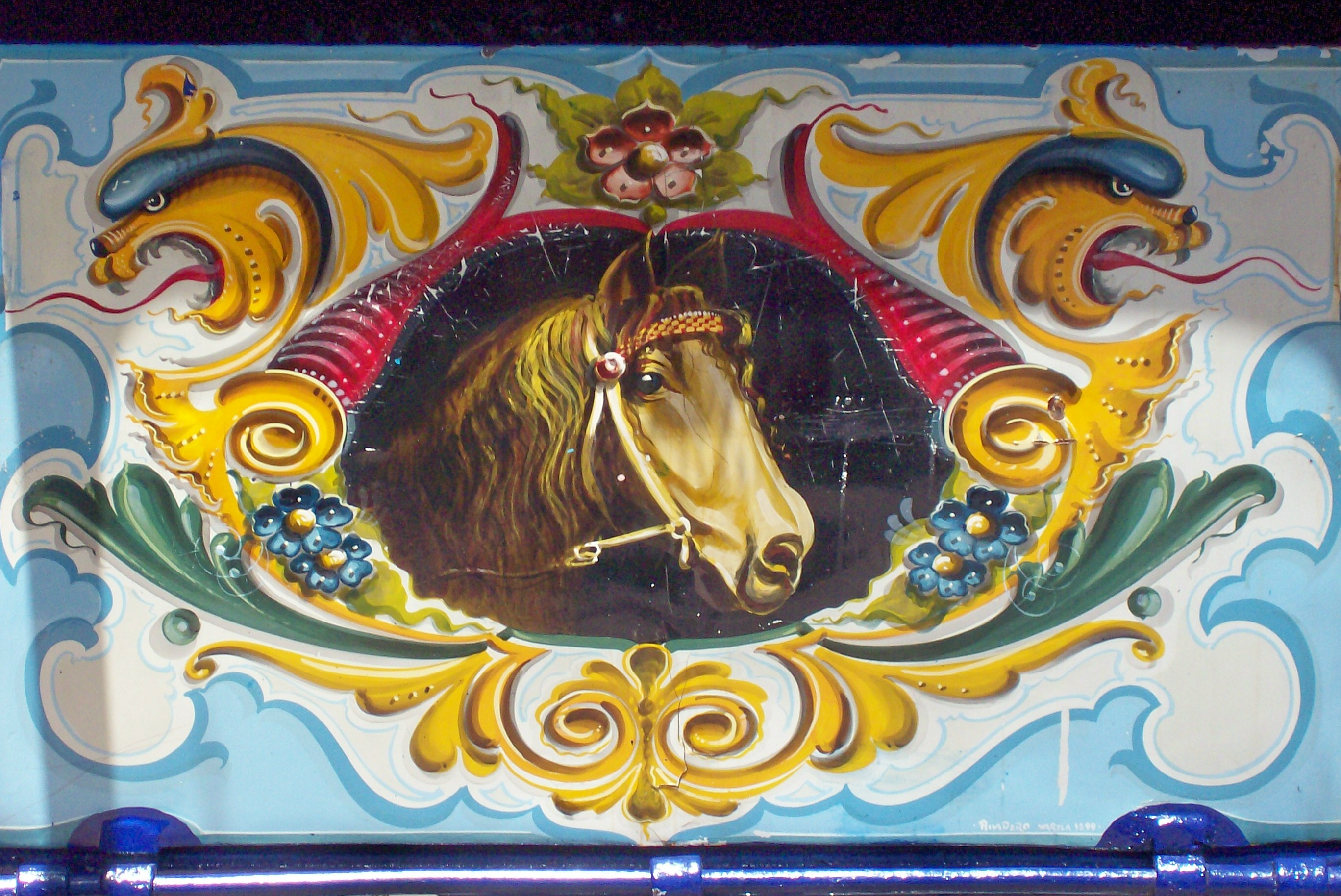 Fileteado "porteño", detail from the back of a Ford , model 1931, AA, in Buenos Aires